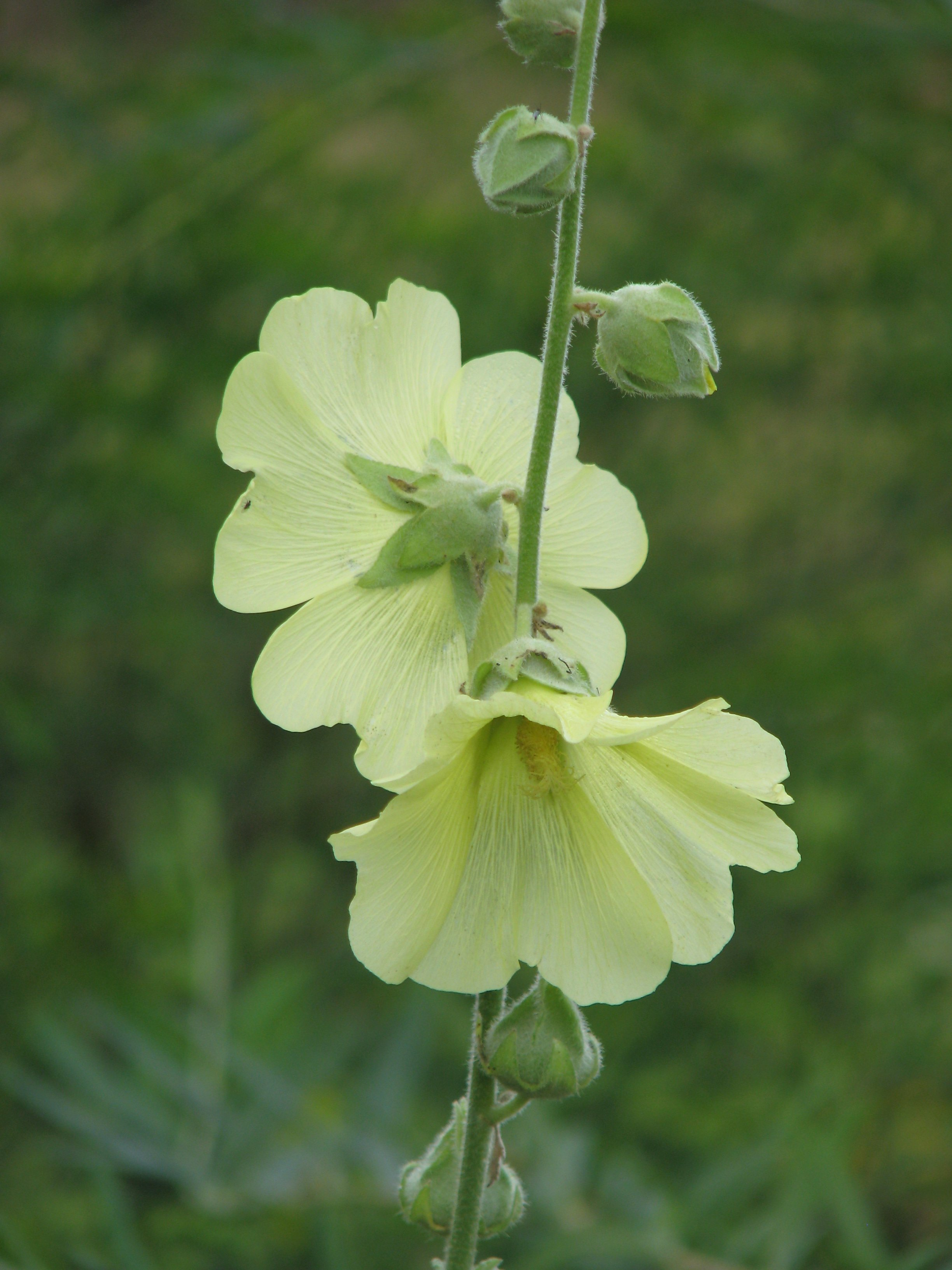 Planted a few years back - still going strong.